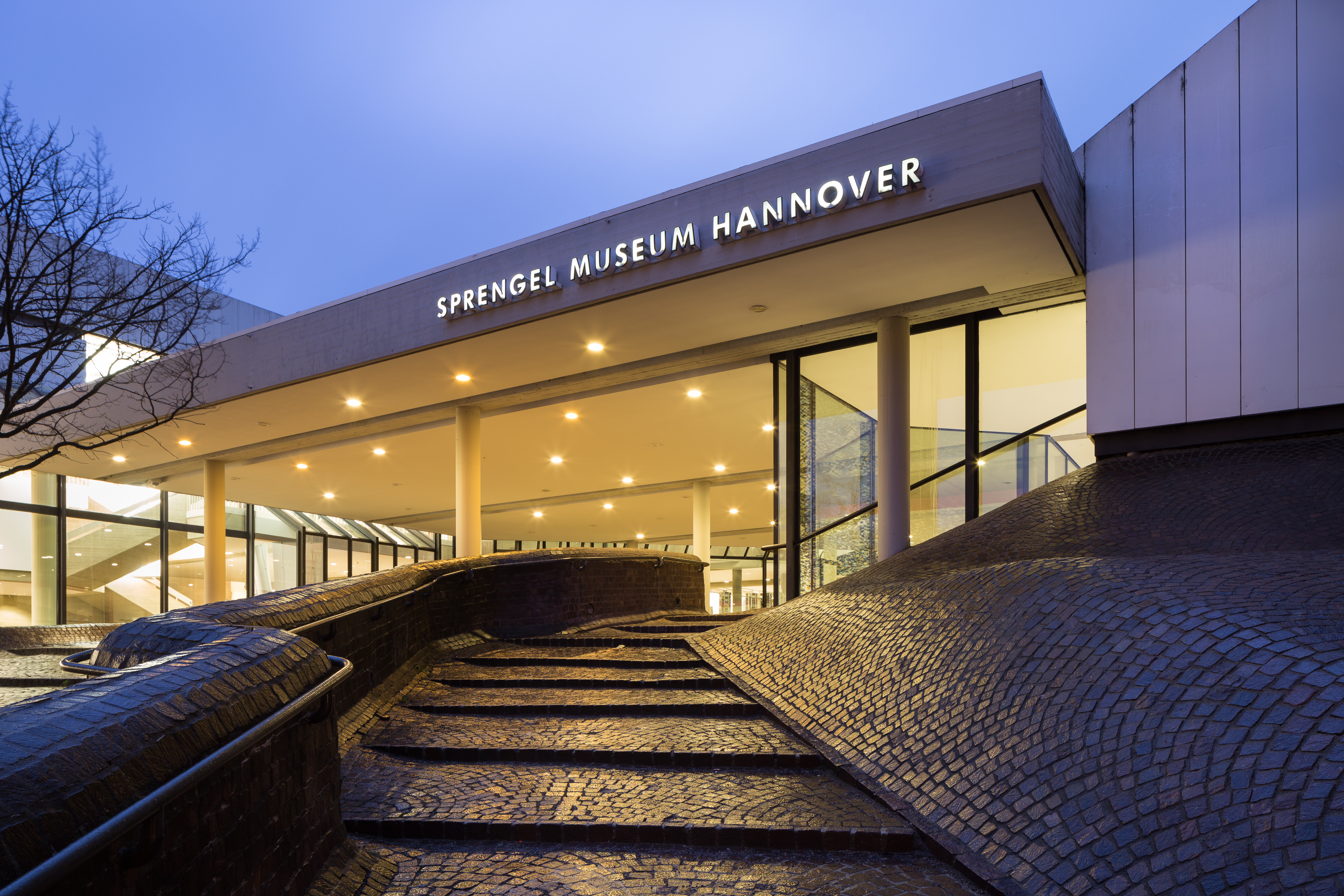 Entrance of Sprengel Museum Hannover located at Kurt-Schwitters-Platz in Suedstadt quarter of Hannover, Germany.